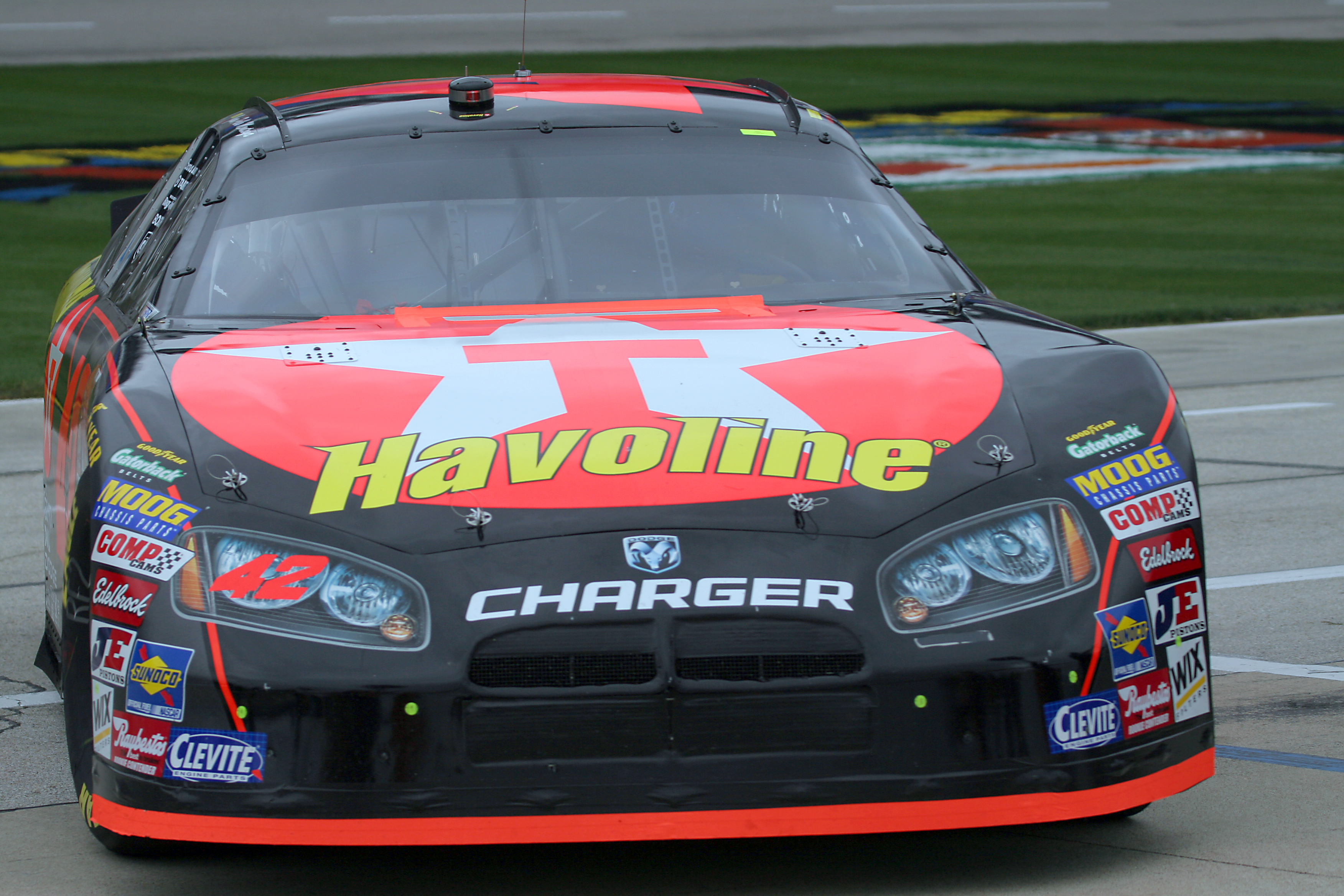 NASCAR driver Juan Pablo Montoyas racecar at Texas Motor Speedway. If you compare the right fender to the left one, you can really see how much specialization goes into the aerodynamics of these cars.